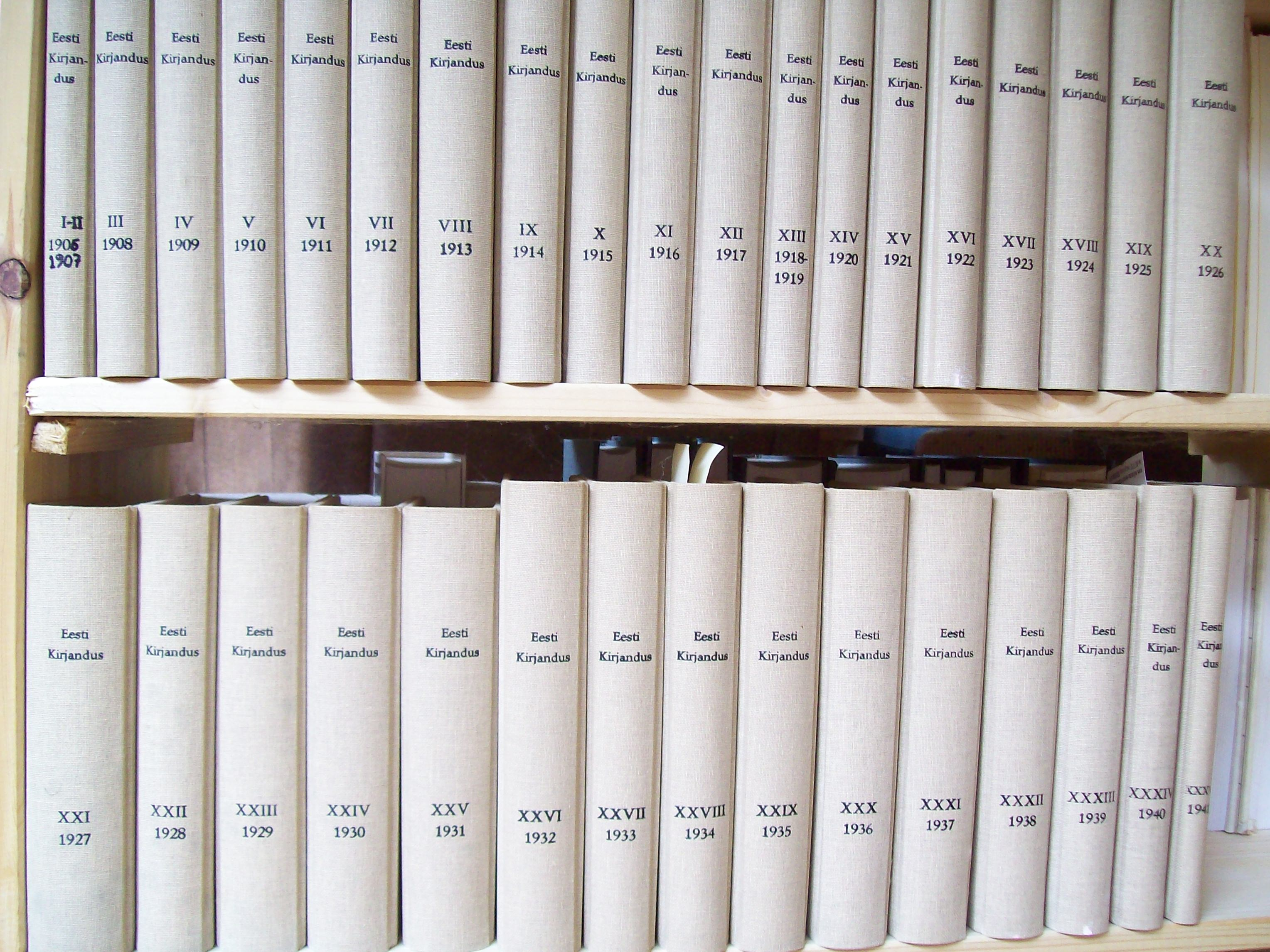 All volumes of the Estonian magazine "Eesti Kirjandus" (1906-1940)